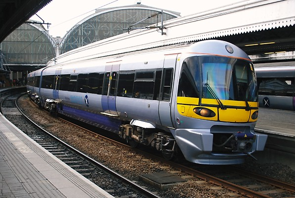 Siemens/CAF Class 332 "Desiro" 25k v ac overhead 4-car emu No.332 010 of Heathrow Express at Paddington on a Heathrow Airport service, 06/09.